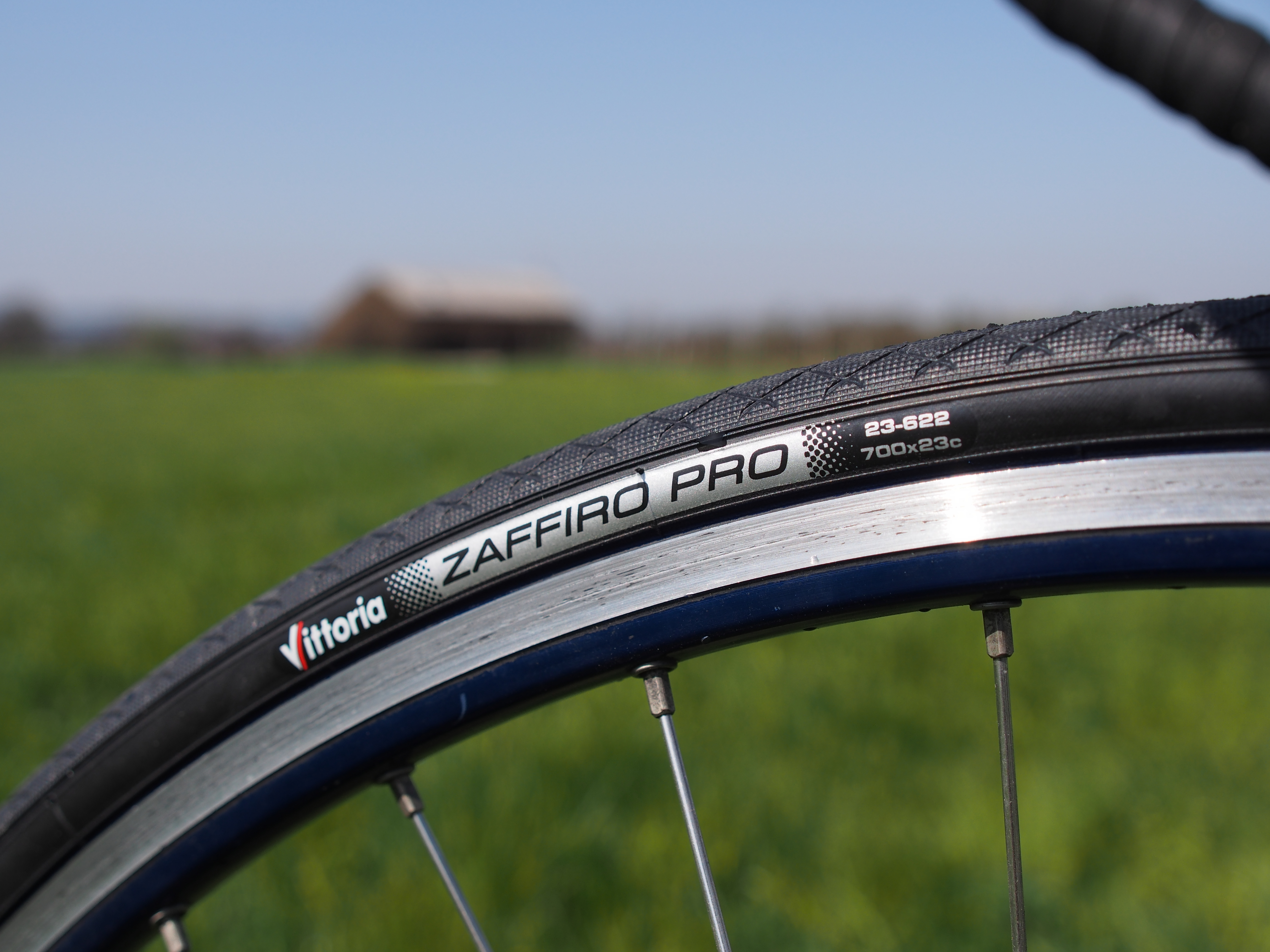 Vittoria Zaffiro tire for road bicycle (240 g, 700×23c, 60 tpi)